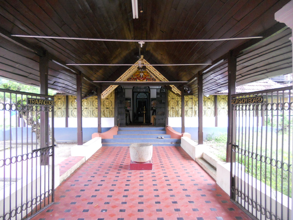 Kottarakkarathampuran smaraka classical kala museum